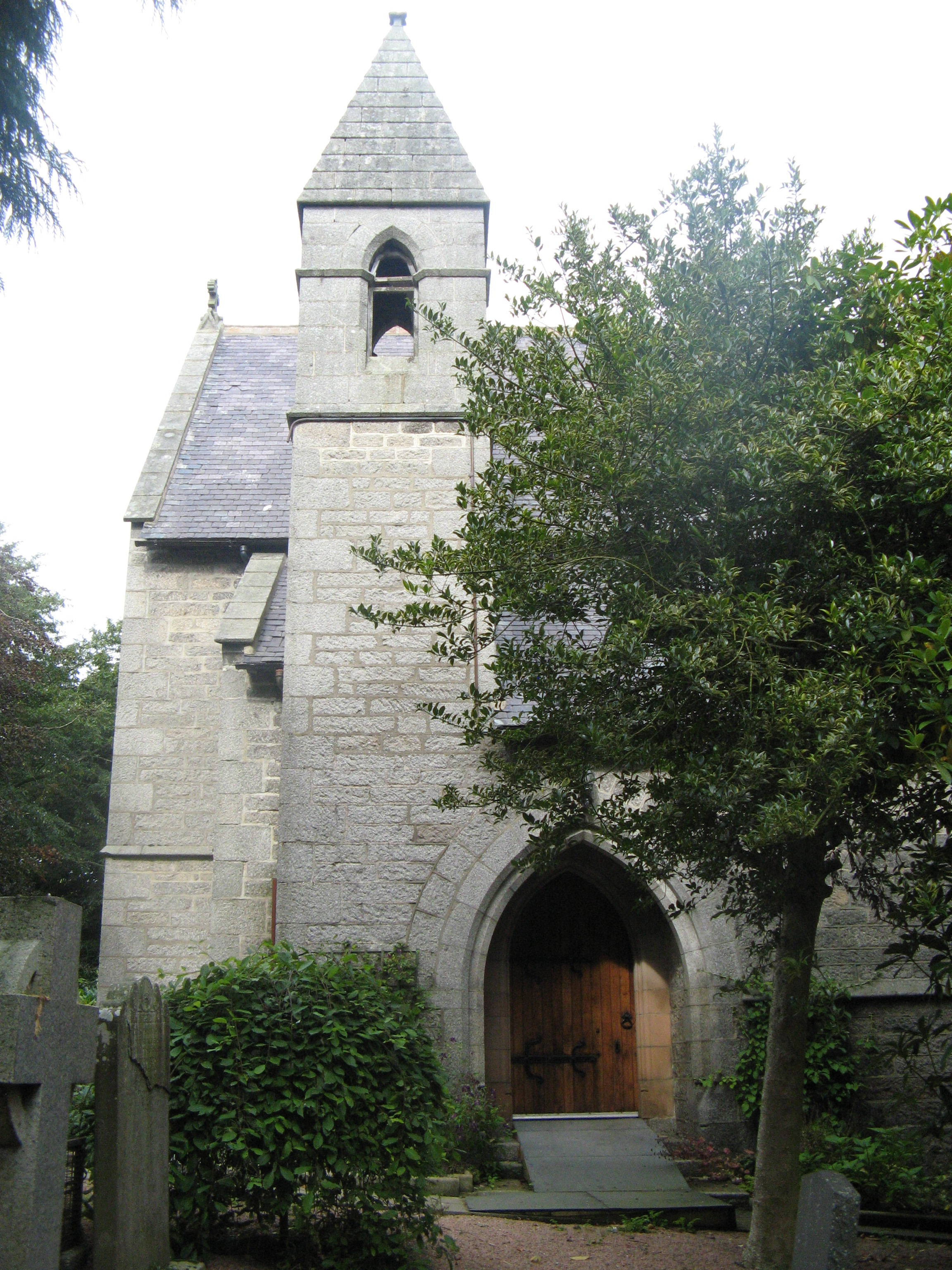 Episcopal Church of St. John the Evangelist, New Pitsligo, Category A listed